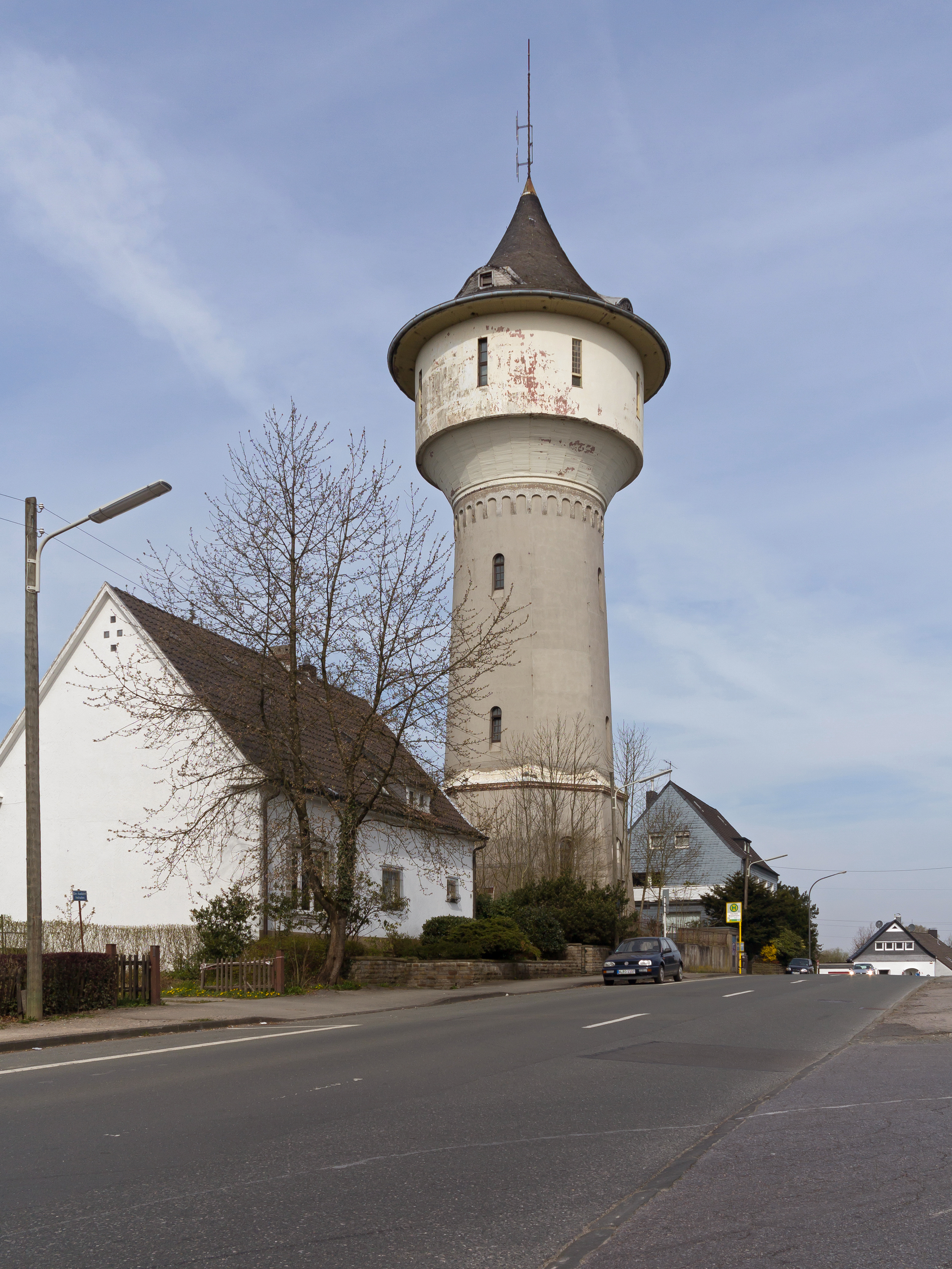 Hatzfeld, water towerThis is a photograph of an architectural monument., no. 1276